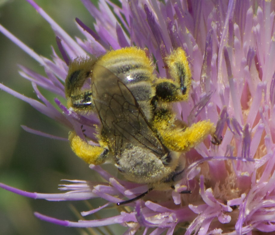 Diadasia enavata, Sunflower Chimney Bee, ID Confidence: 98